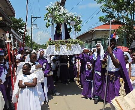 Holy Week procession Livingston, Guatemala